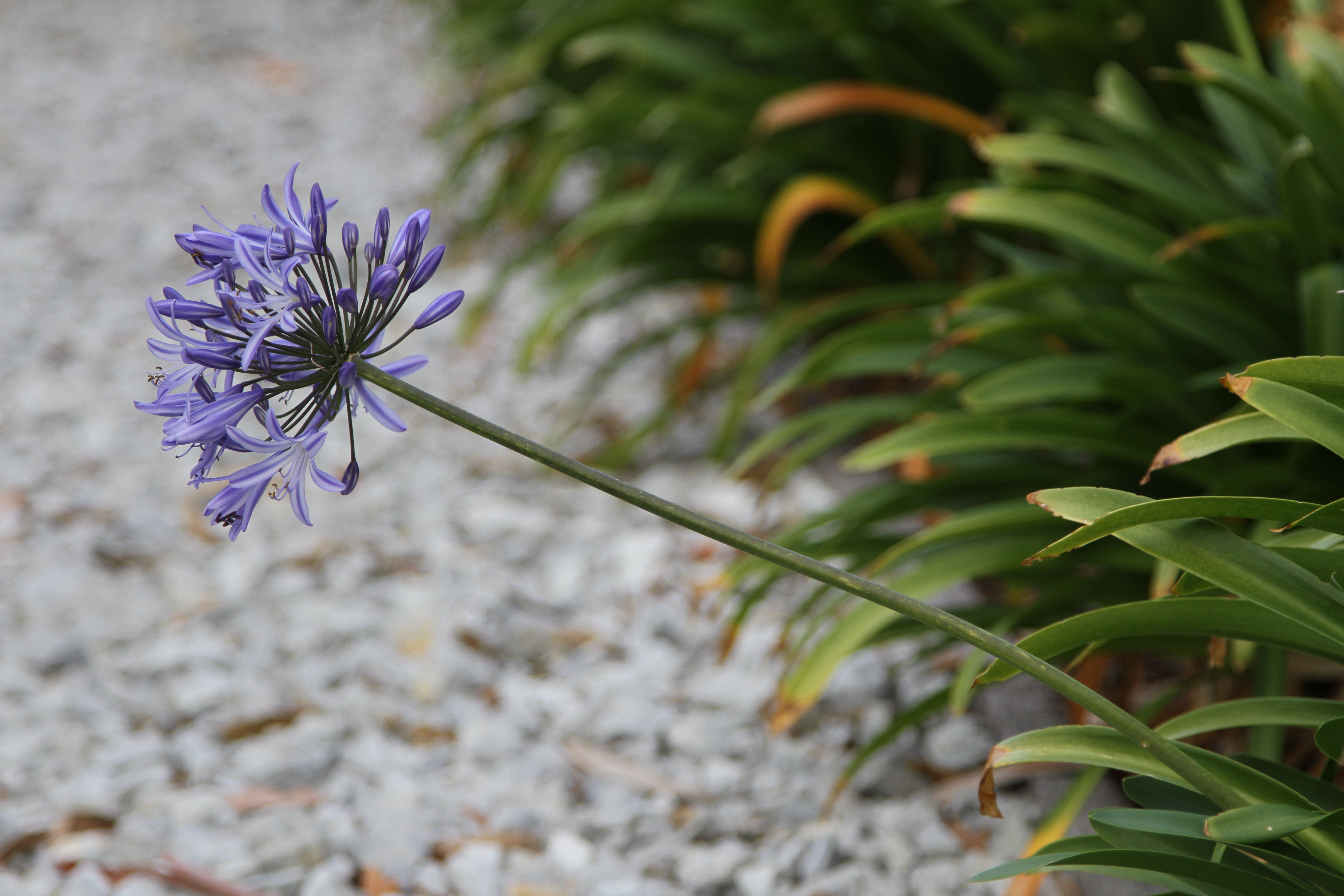 An Agapanthus in bloom, with flower stem and leaves shown.